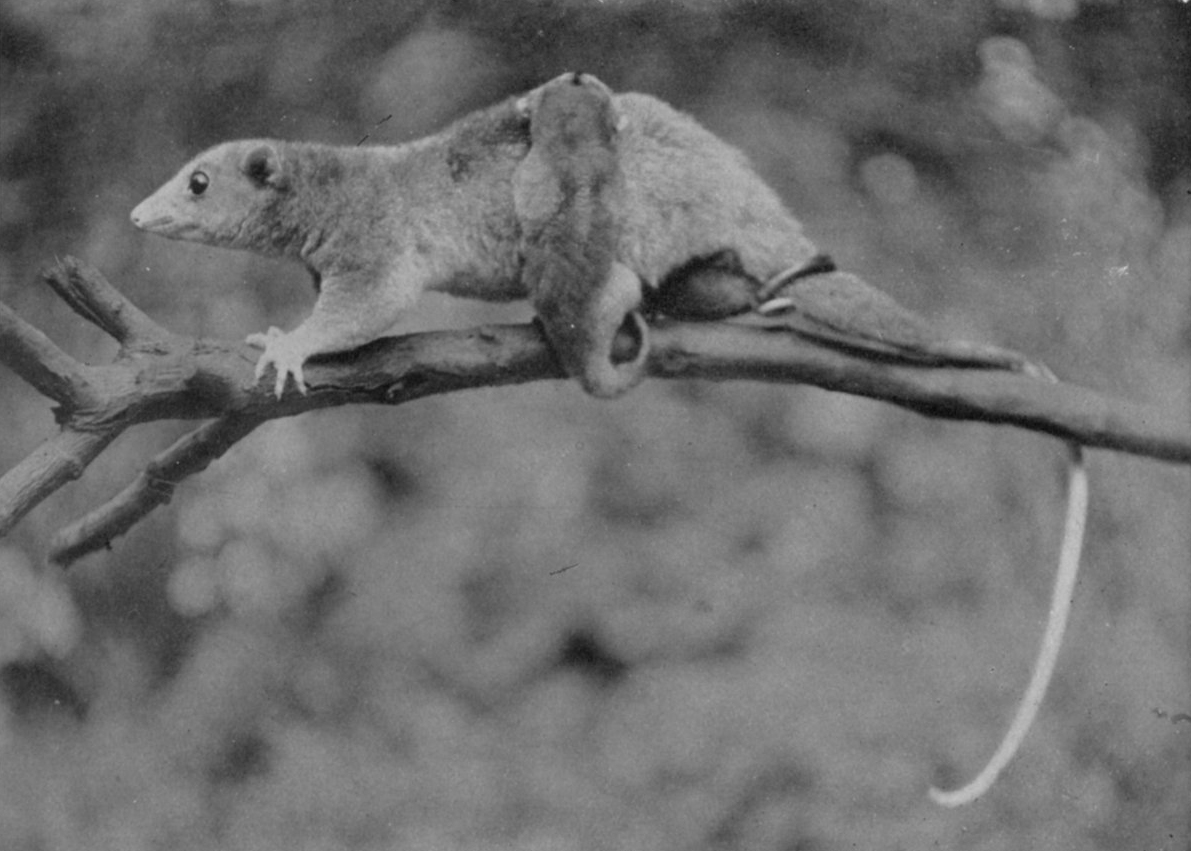 WOOLLY OPOSSUM CARRYING HER FAMILY One of the young ones is clinging to its mother and has its long prehensile tail coiled round hers